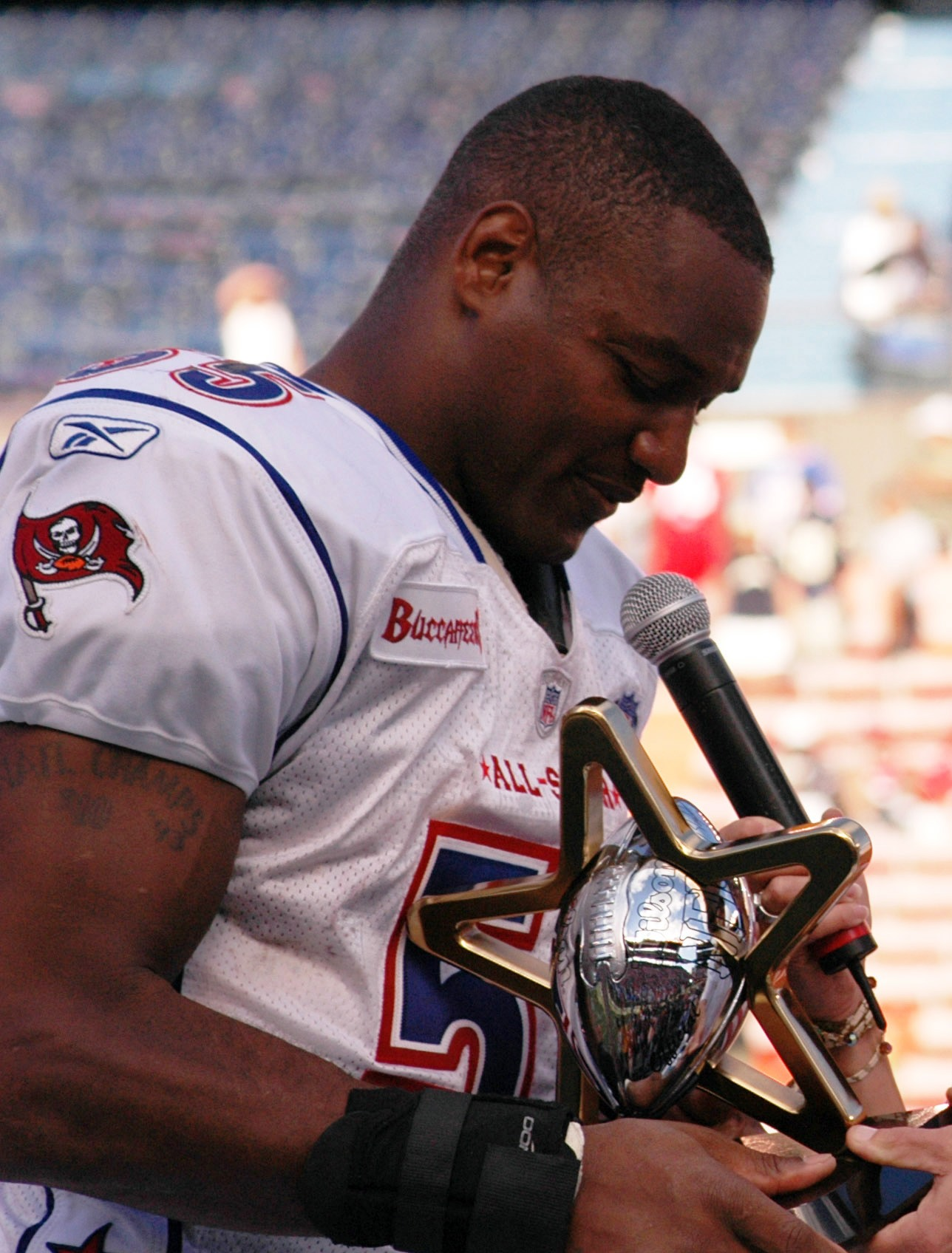 Commander Naval Region Hawaii, Rear Adm. Michael Vitale, presents the Most Valuable Player (MVP) trophy to Tampa Bay Bucaneers linebacker, Derrick Brooks. The Pro Bowl featured All-Star players from the National Football Conference (NFC) and the American Football Conference (AFC) in a game, which was played for the 27th consecutive year at Aloha Stadium in Honolulu, Hawaii.